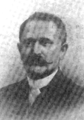 Zsigmond Sebők